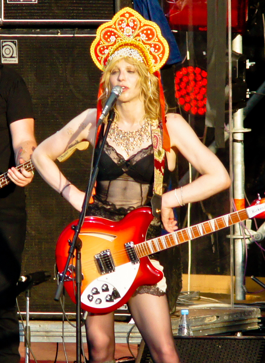 Courtney Love onstage in Moscow, performing with Hole